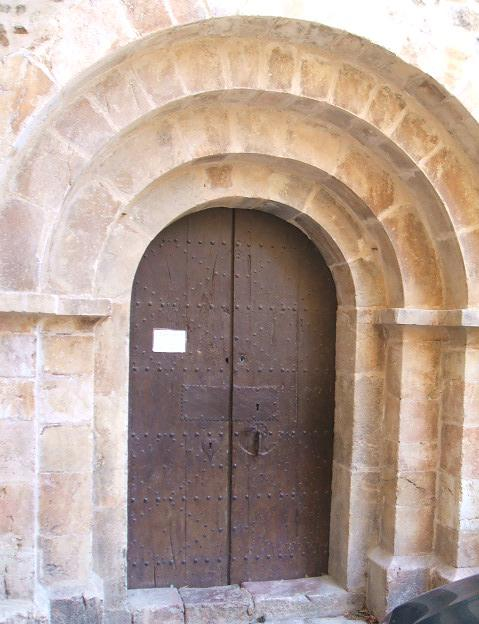 Oms (département of Pyrénées-Orientales, Languedoc-Roussillon region, France) Saint-John church (XIIth century), Romanesque portal.